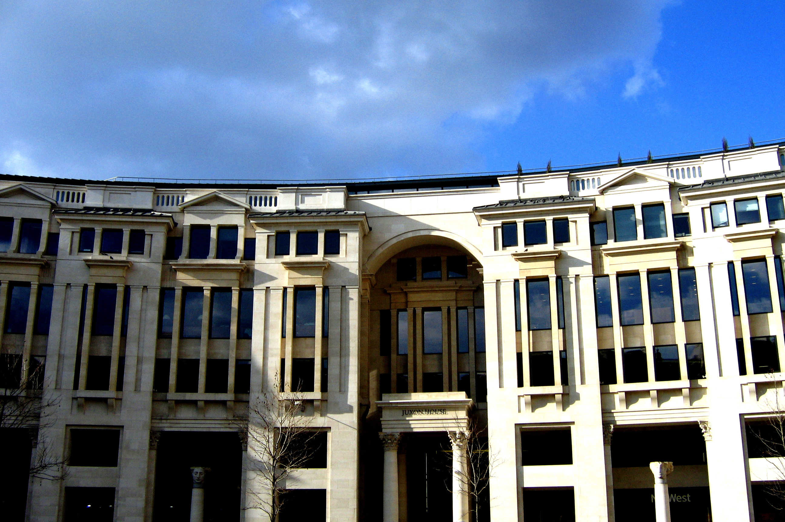 st paul's cathedral, portfolio, city of edited